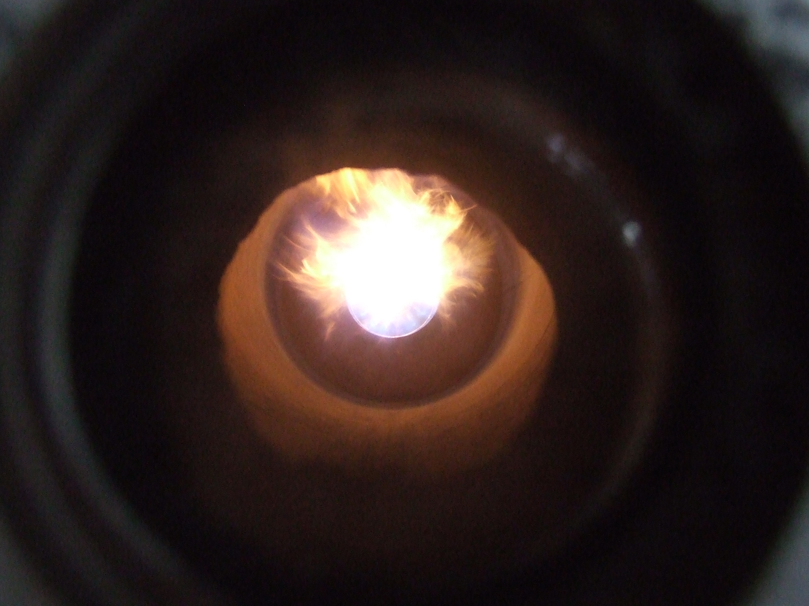 Burner flame of a dualburner at operation, on this picture fueled with gas